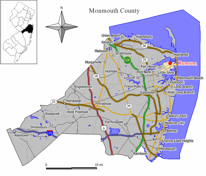 Source: Jim Irwin